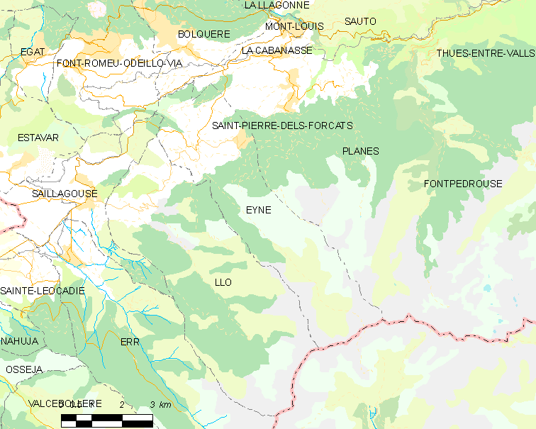 Map of French municipality